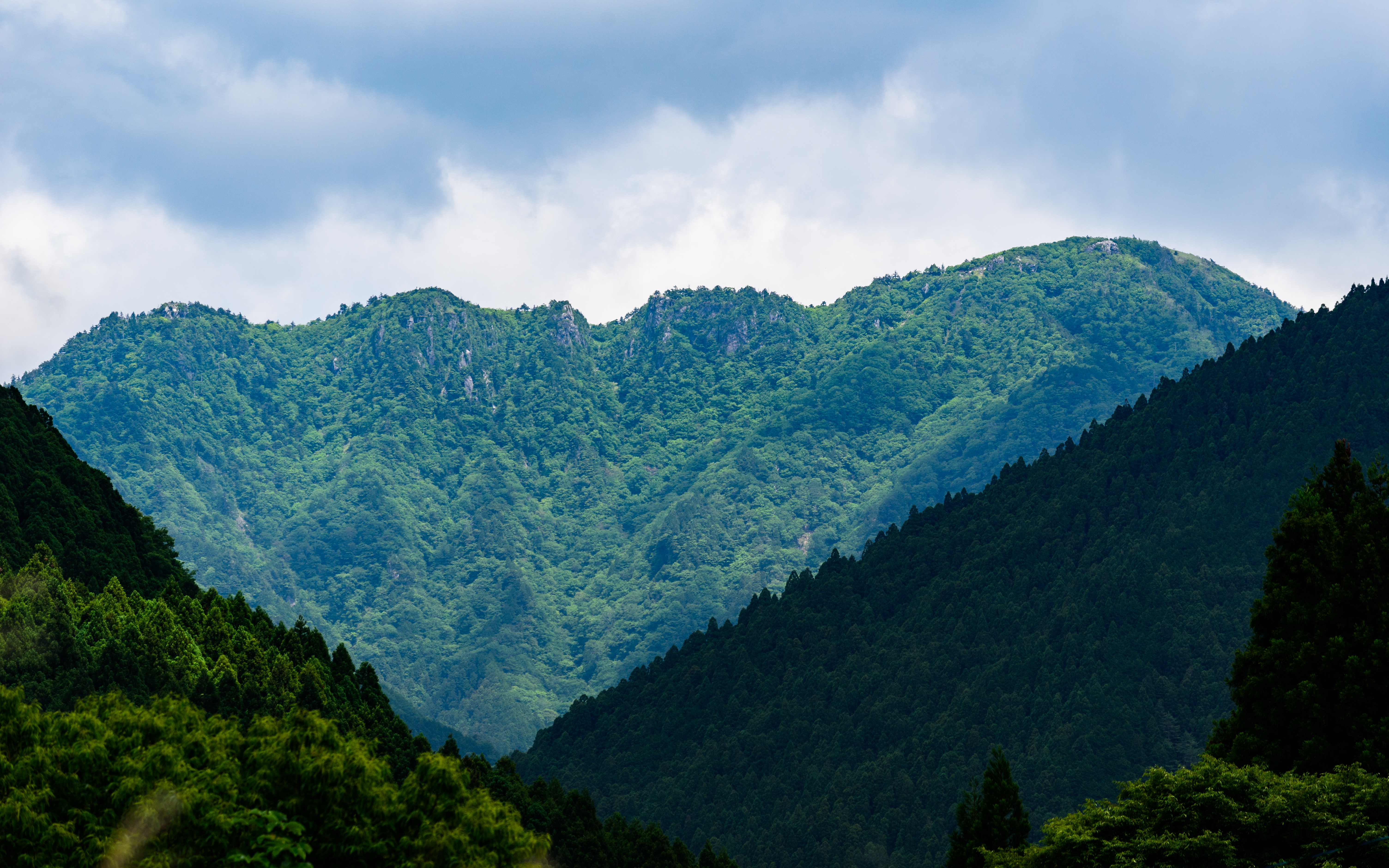 Mount Sanjo (Sanjogadake, known as Mount Omine, 1,719.2 metres) in the rainy season from Dorogawa in Tenkawa, Nara Prefecture, Japan.